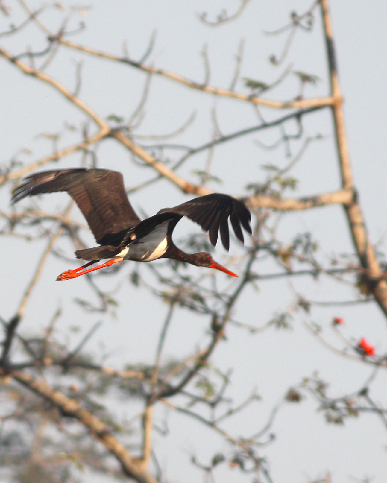 Black Stork Manas Assam India December 2018.